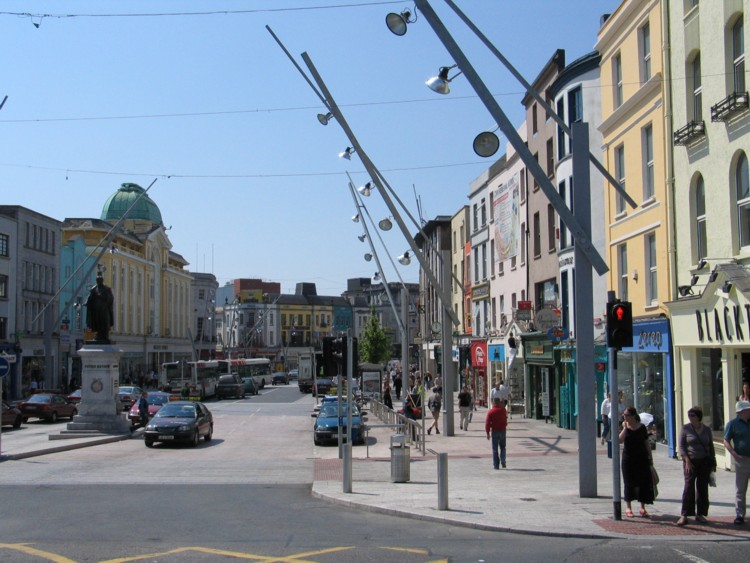 Cork - St. Patrick's Street شارع سان پاترك